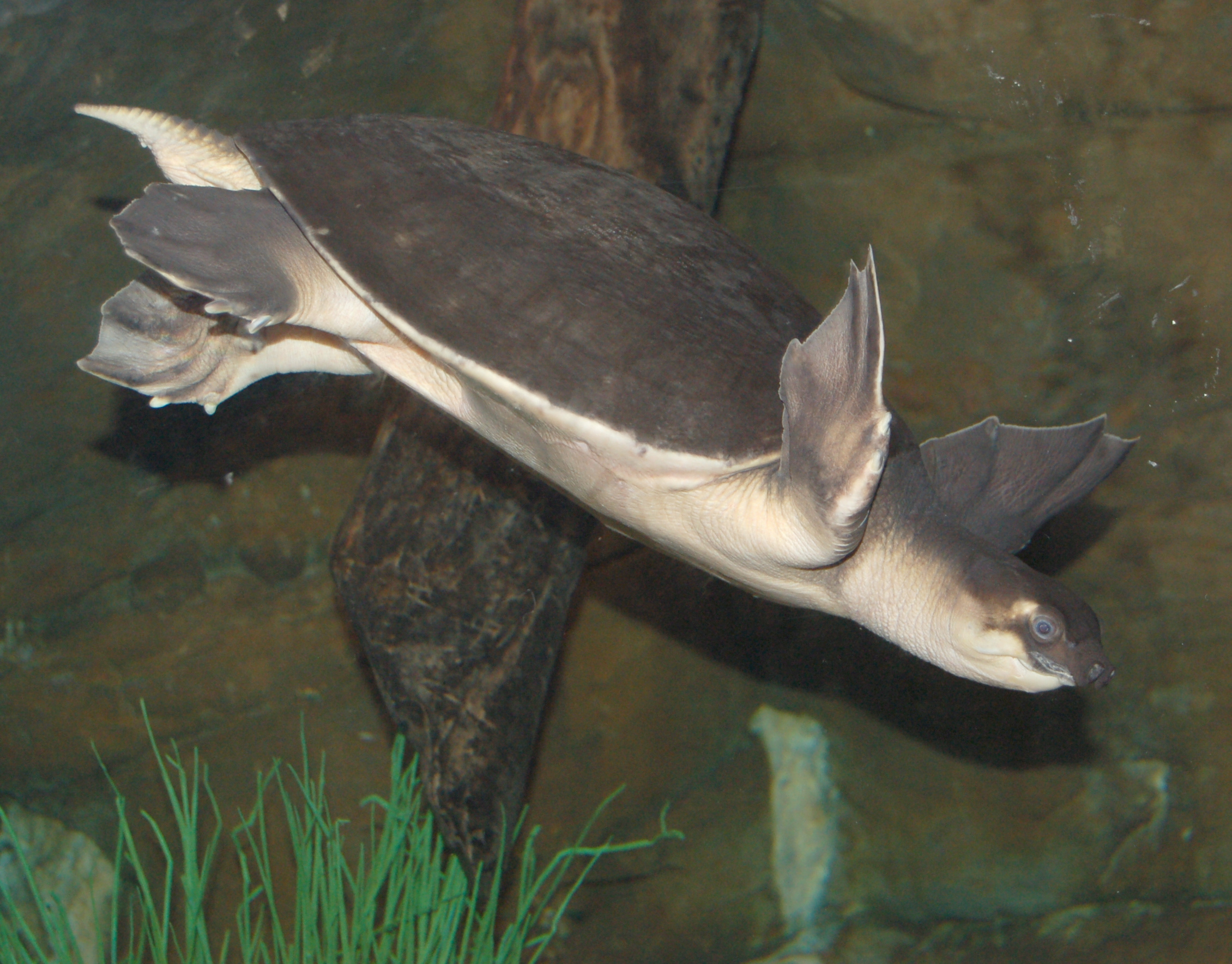 A Australasian Pig-nose Turtle (Carettochelys insculpta) taking a dive. Picture taken at the Philadelphia Zoo where the identification was made.